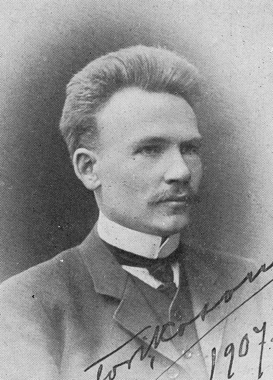 Finnish socialist, editor and atheist Vihtori Kosonen in 1907.